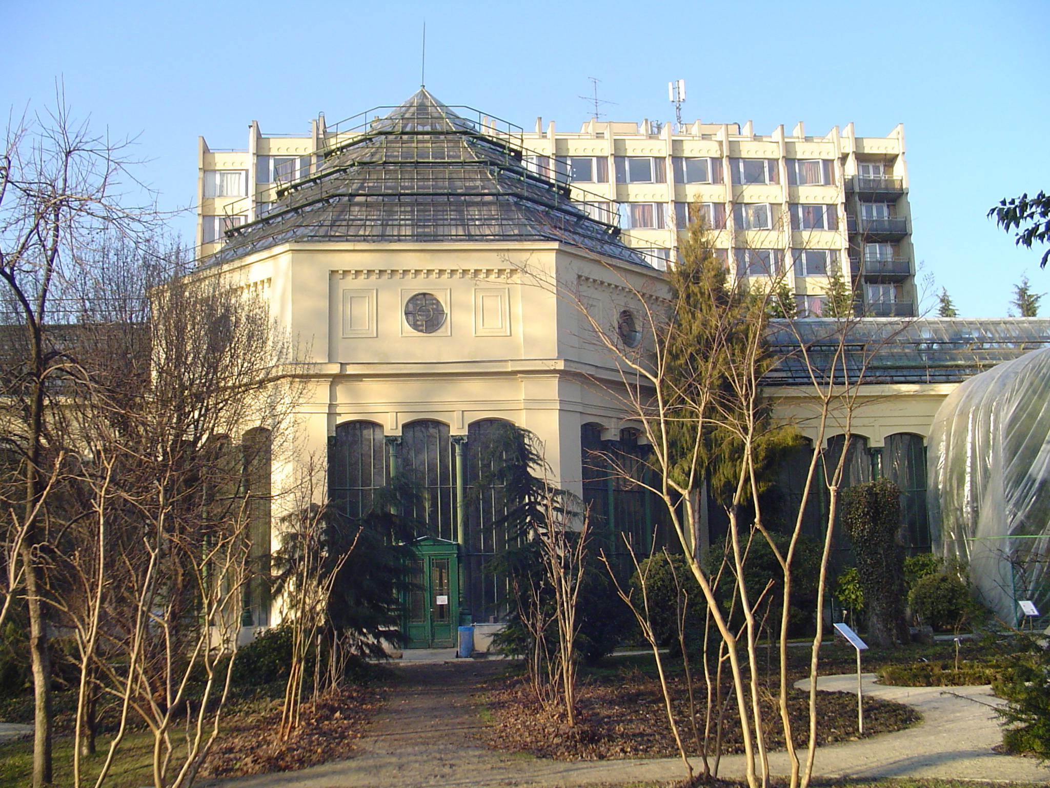 Victoria house from botanic garden called Füvészkert (Hungary, Budapest)